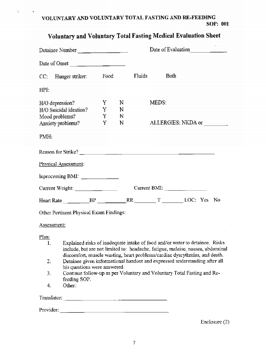 Joint Task Force Guantanamo medical staff were supposed to use this form when they force-fed hunger strikers.